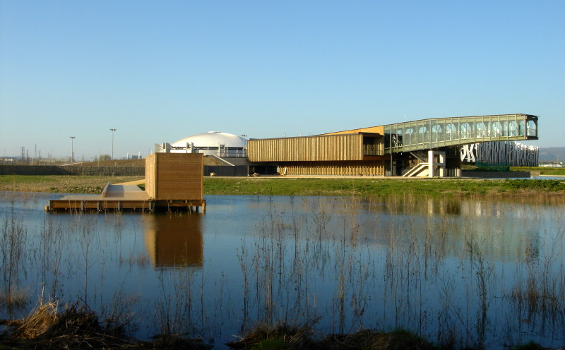 The Ataria Interpretation Centre of the Salburua wetlands, and observation boardwalk. In the Salburua wetlands nature preserve, Álava-Araba province, Basque Autonomous Community, northern Spain.